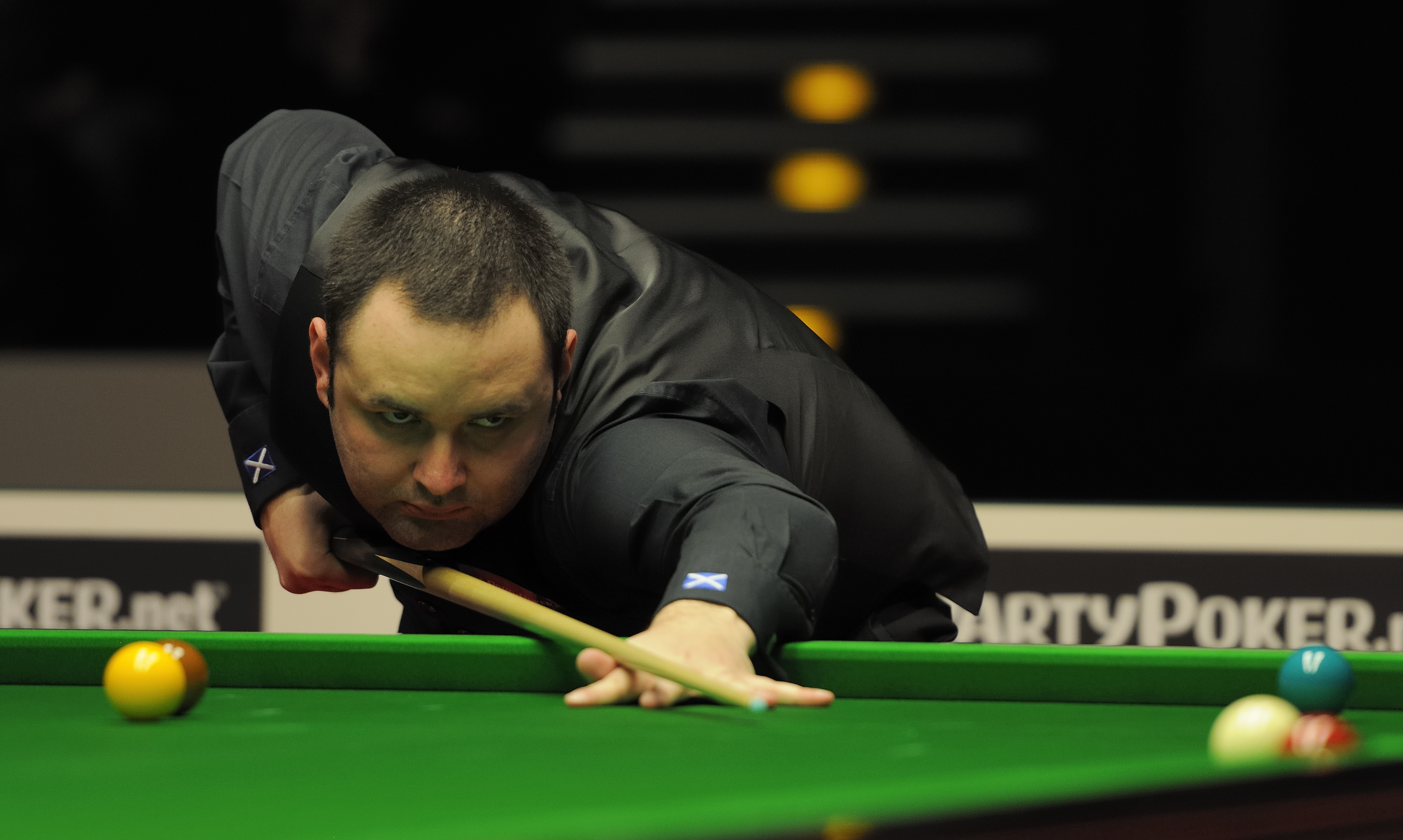 Picture taken in Berlin during the Snooker German Masters in 2011. Stephen Maguire.